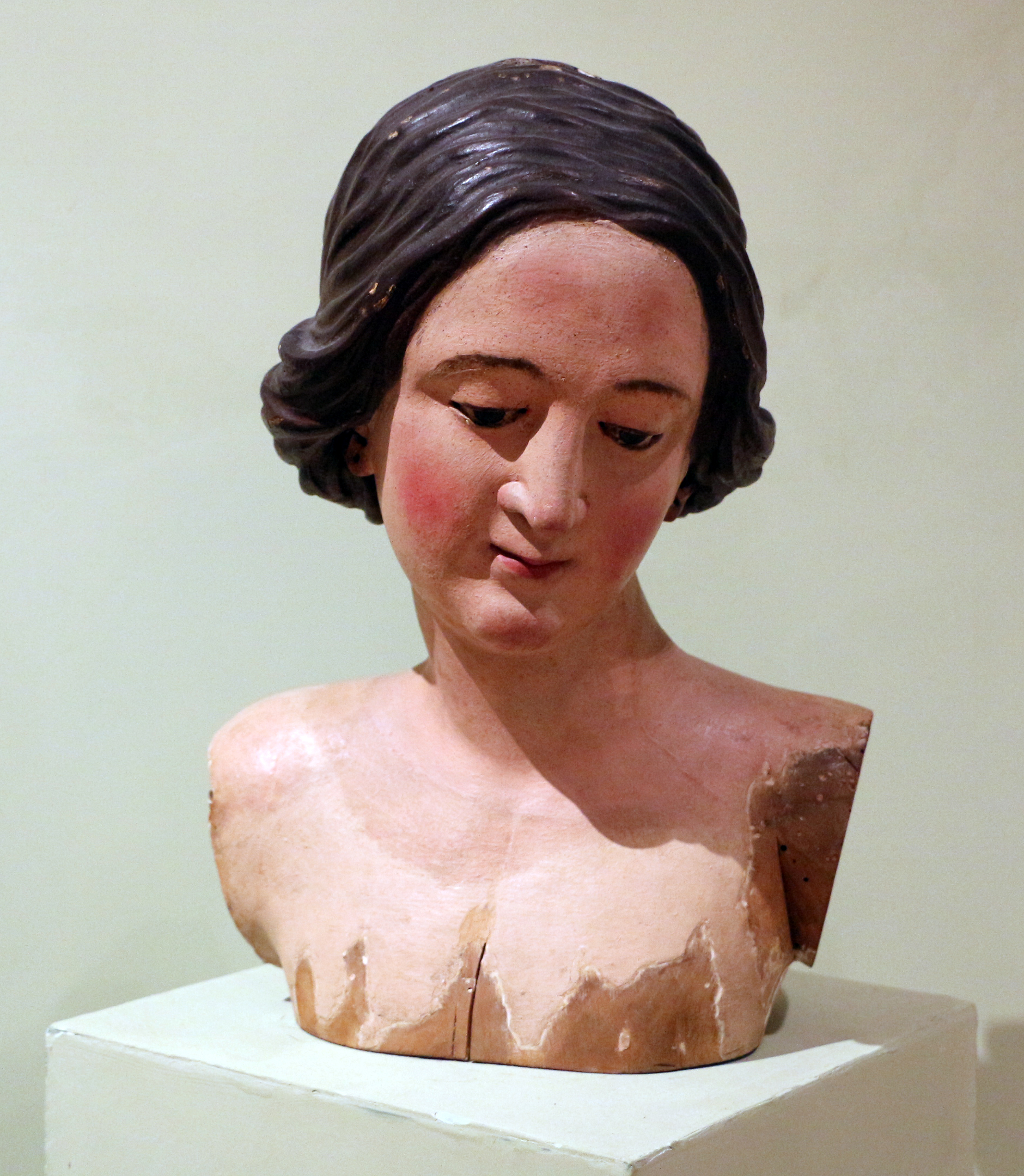 Museo Adriano Bernareggi